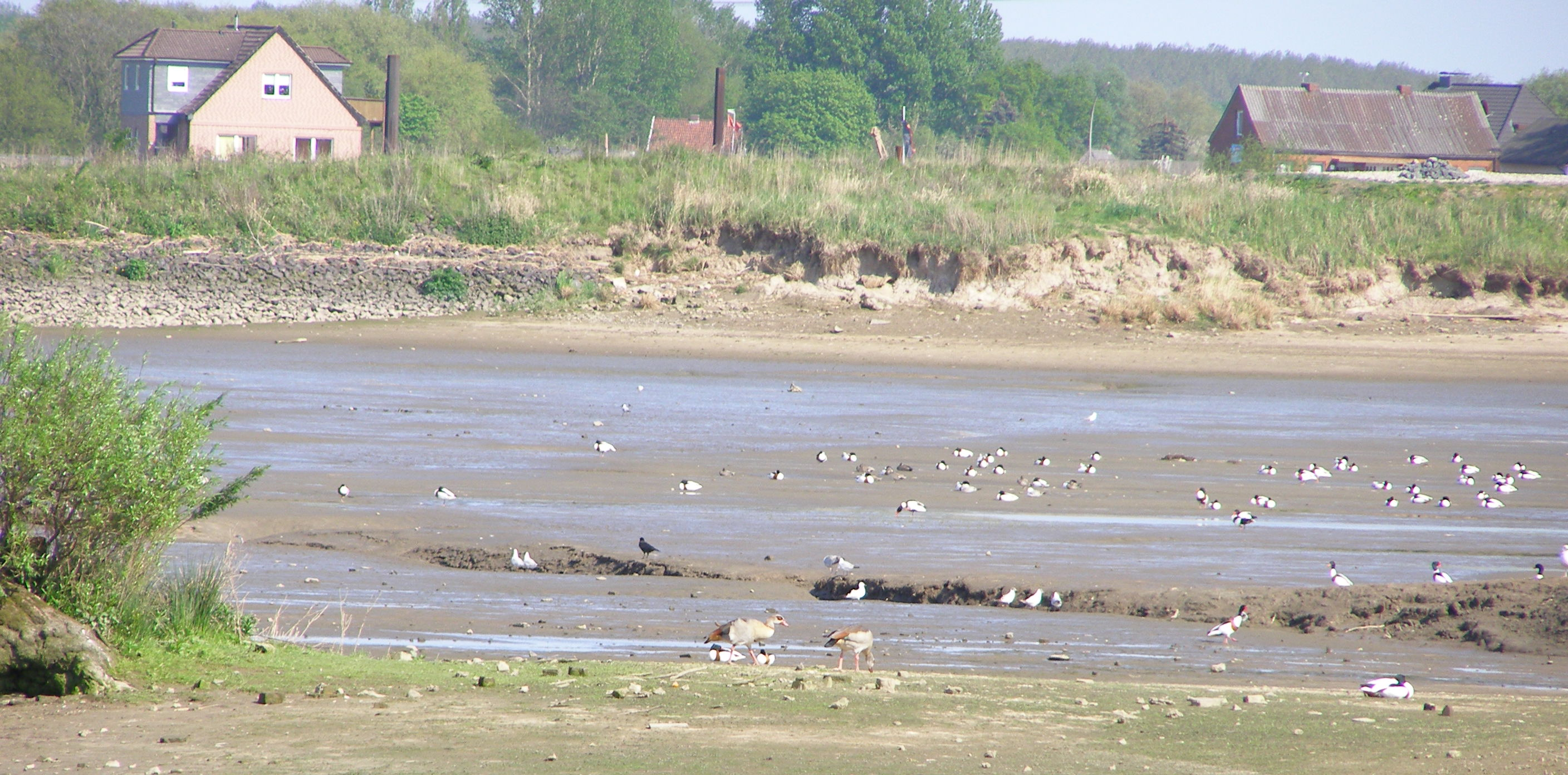 Egyptian Geese (Alopochen aegyptiacus) and Shelducks (Tadorna tadorna) in the Holzhafen (Hamburg) on May 1, 2012